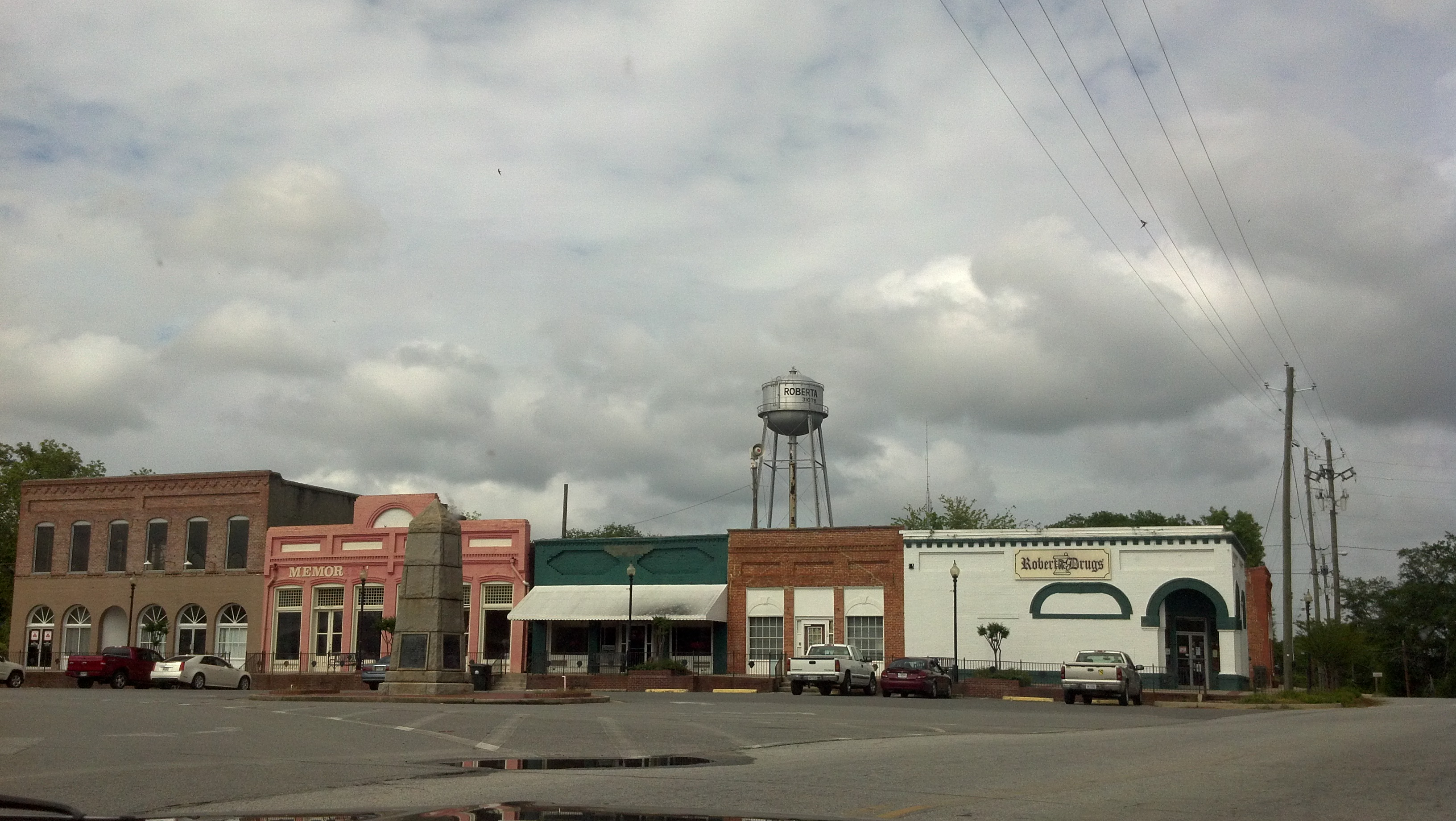 Downtown Roberta, Georgia, with the water tower in the background.